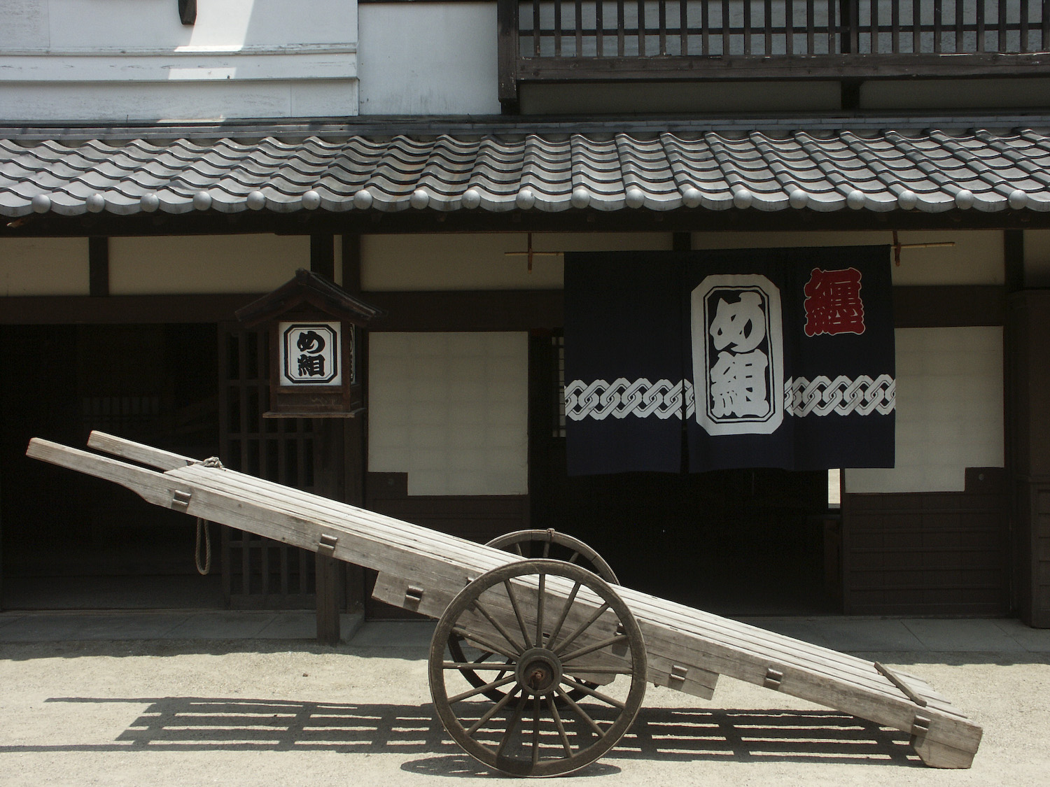 Toei Uzumasa Studios, Kyoto, Japan I contribute my rights in the file to the public domain. People and organizations retain rights to images in the file. Daihachi-guruma (cart) in front of Megumi firemen's home